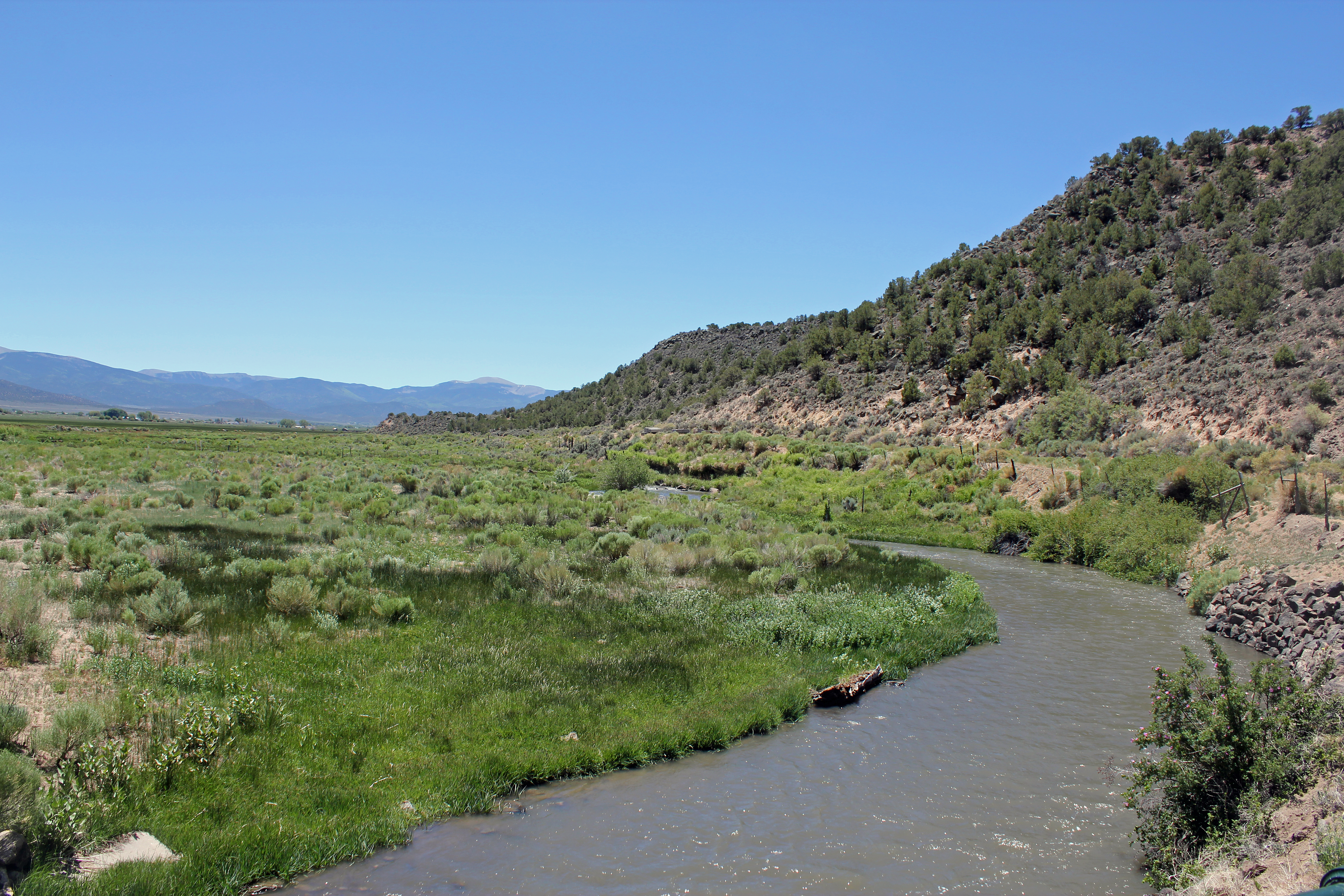 Culebra Creek (also called Culebra River, Rio de la Culebra or Rio Culebra), a stream in Costilla County, Colorado. Within the upper Rio Grande Basin.